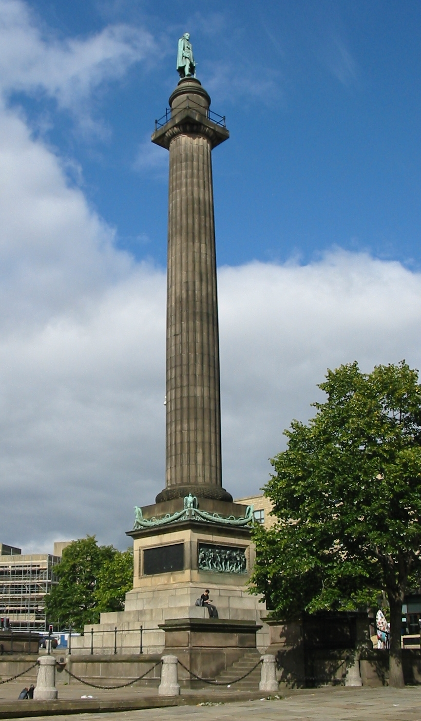 Liverpool